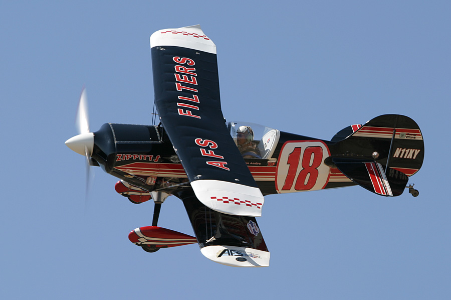 Pitts Special (N11XY) at the Reno Air Races